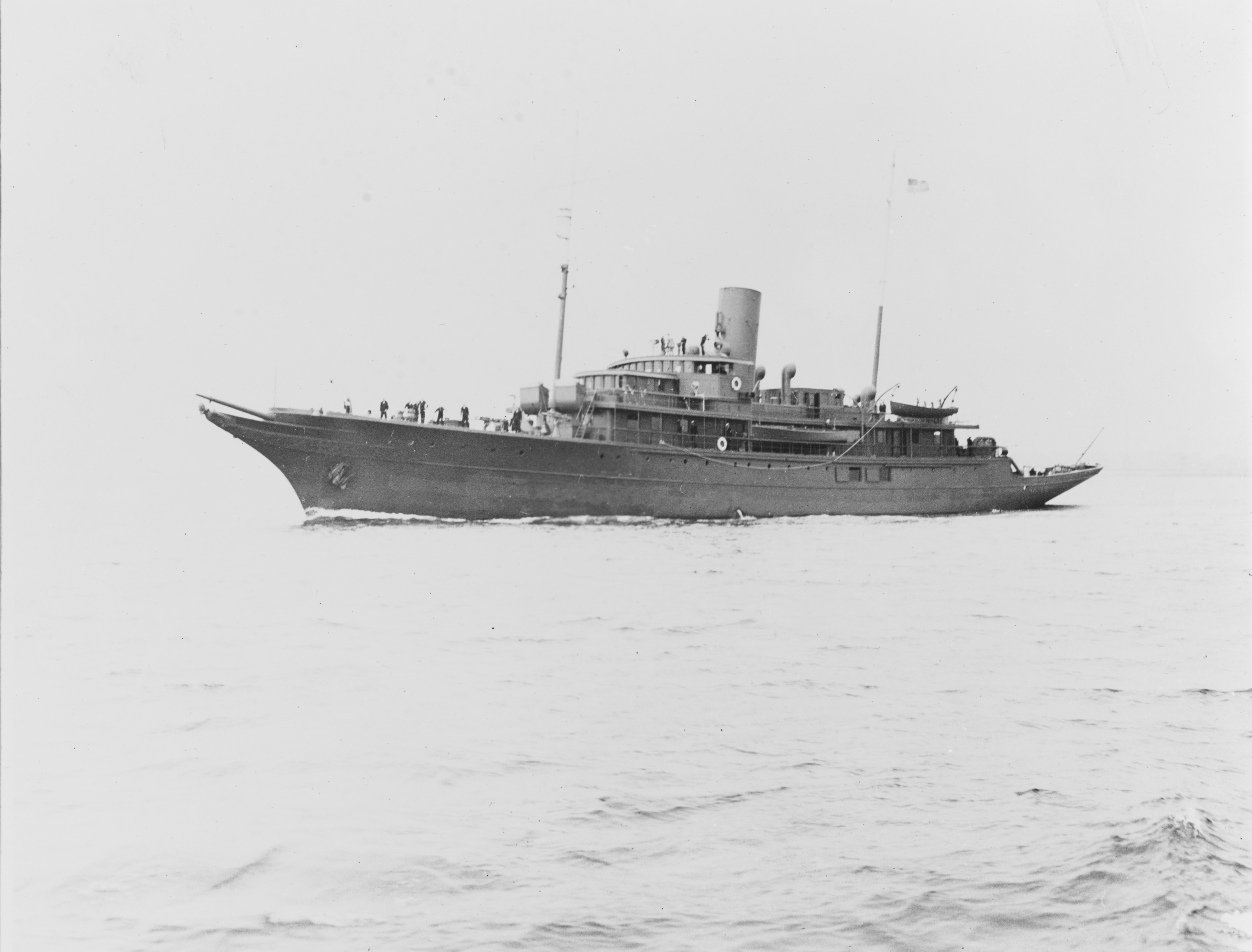 Off the Boston Navy Yard, Massachusetts, 27 May 1941. Photograph from the Bureau of Ships Collection in the U.S. National Archives.